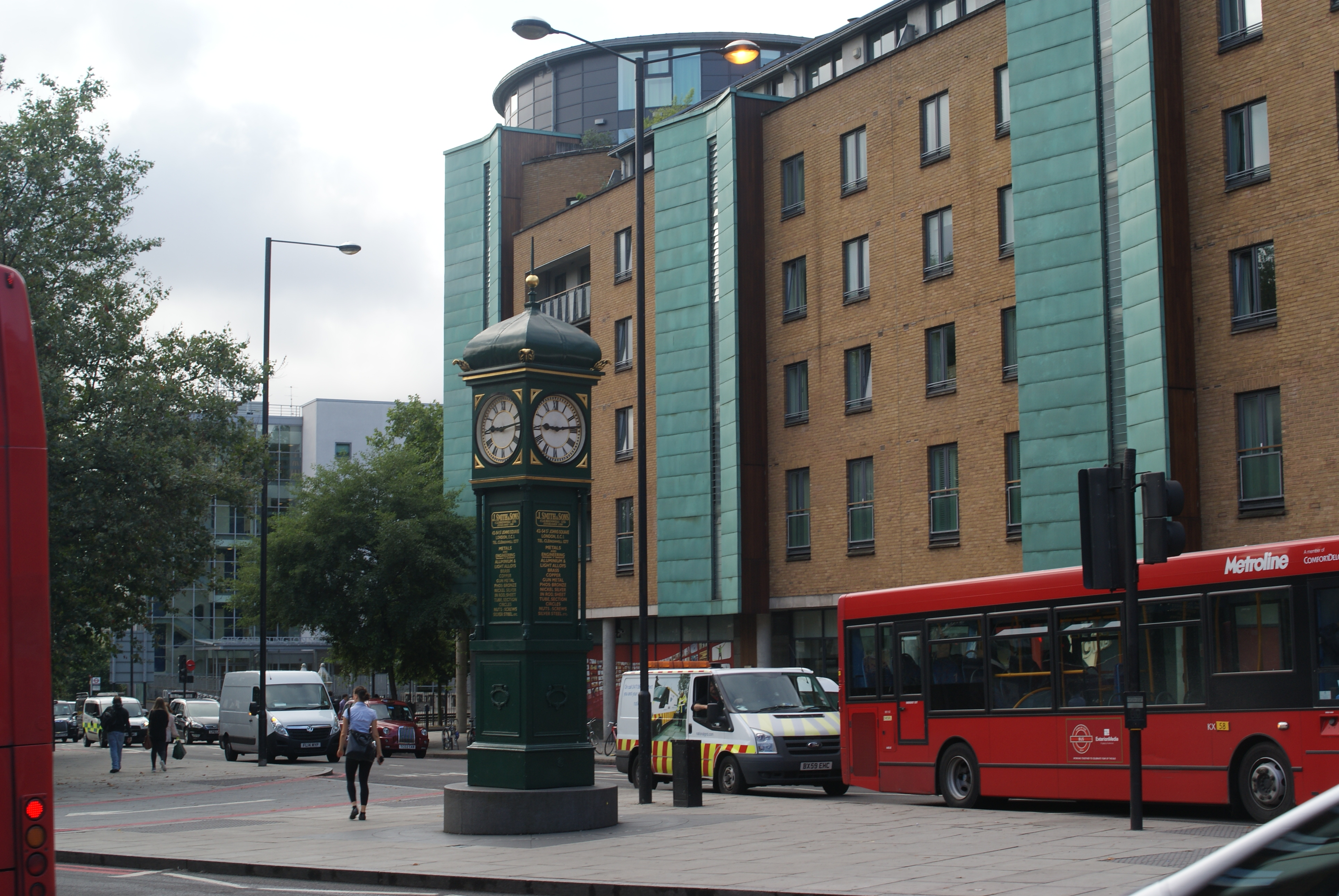 J Smith & Sons clock at the junction of Goswell Road and City Road, London EC1.